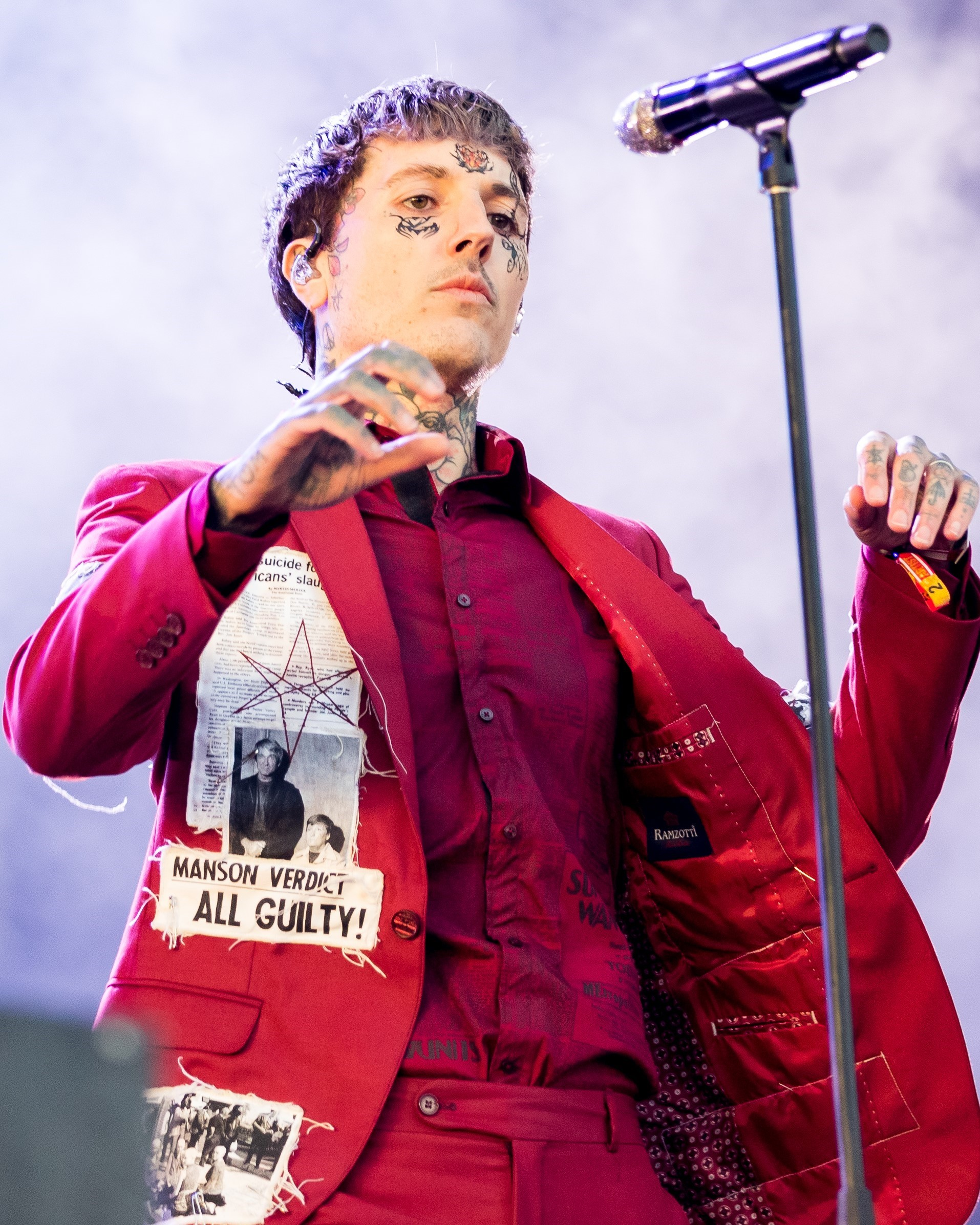 Bring me the Horizon during Rock am Ring ( at Nürburgring, Rheinland-Pfalz, Germany on 2019-06-08, Photo: Sven Mandel Promotion by Live Nation (